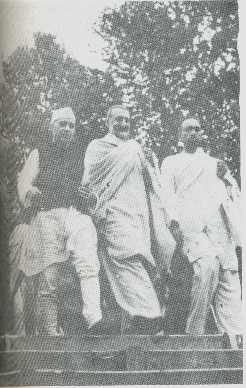 Sheikh Abdullah with Nehru and Abdul Ghafar Khan (Bacha Khan) at Nishat garden, Srinagar, India.